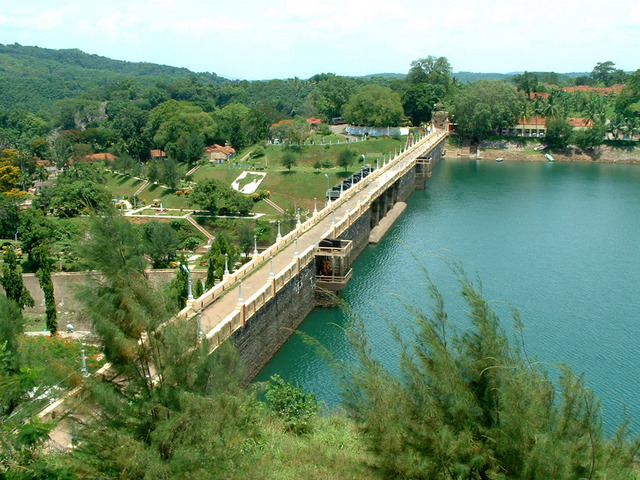 [A view of the Neyyar Dam in Kerala